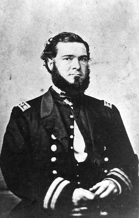 Lieutenant Commander James S. Thornton, US Navy. At the time of the photo, Thornton was Executive officer of USS Kearsarge.